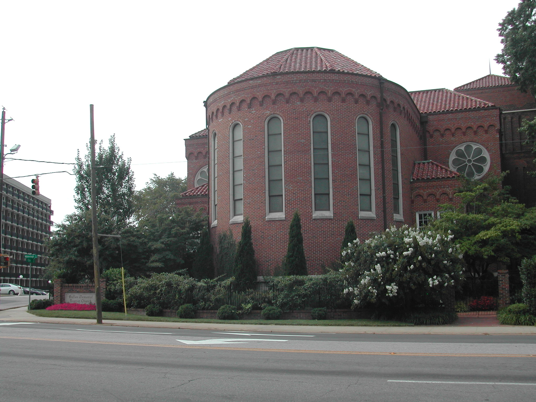 Pullen Memorial Baptist Church in Raleigh, North Carolina, US. The Siler Garden is tucked between the street and the santcuary.